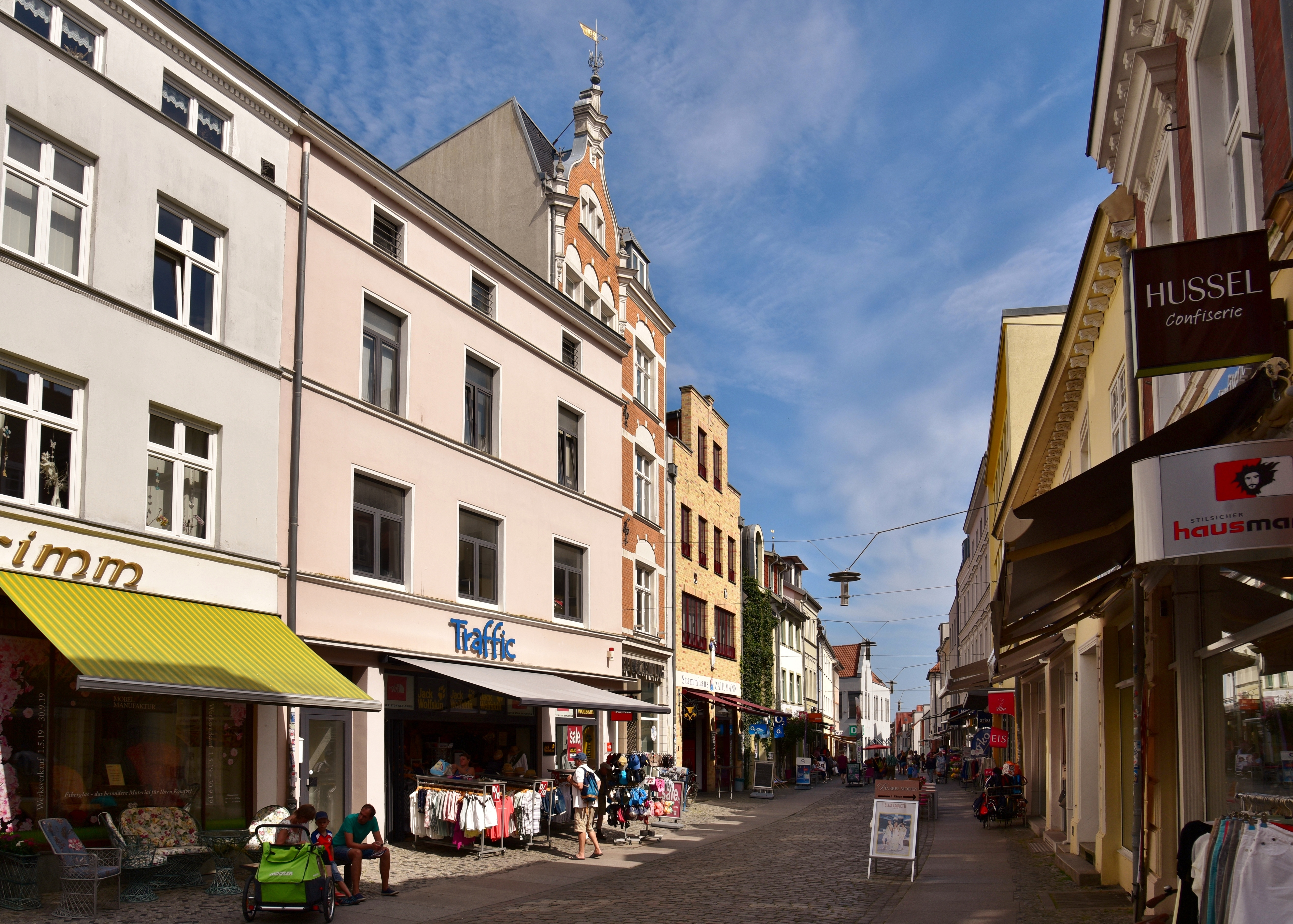 View of Apollonienmarkt, Stralsund